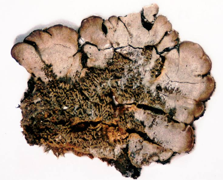 Coccocarpia palmicola (Spreng.) Arv. & D.J. Galloway, 1979 [Syn. Coccocarpia cronia (Tuck.) Vainio, 1915] (photograph of a herbarium specimen taken through a dissecting microscope (x8) showing isidiate lobes) Growing on vertical phyllite along road at Spring Creek, Polk County, Tennessee, USA; collected and identified by Allen C. Skorepa (No. 6382, 22 Mar 1971); specimen is now in the Lichen Herbarium of the New York Botanical Garden.